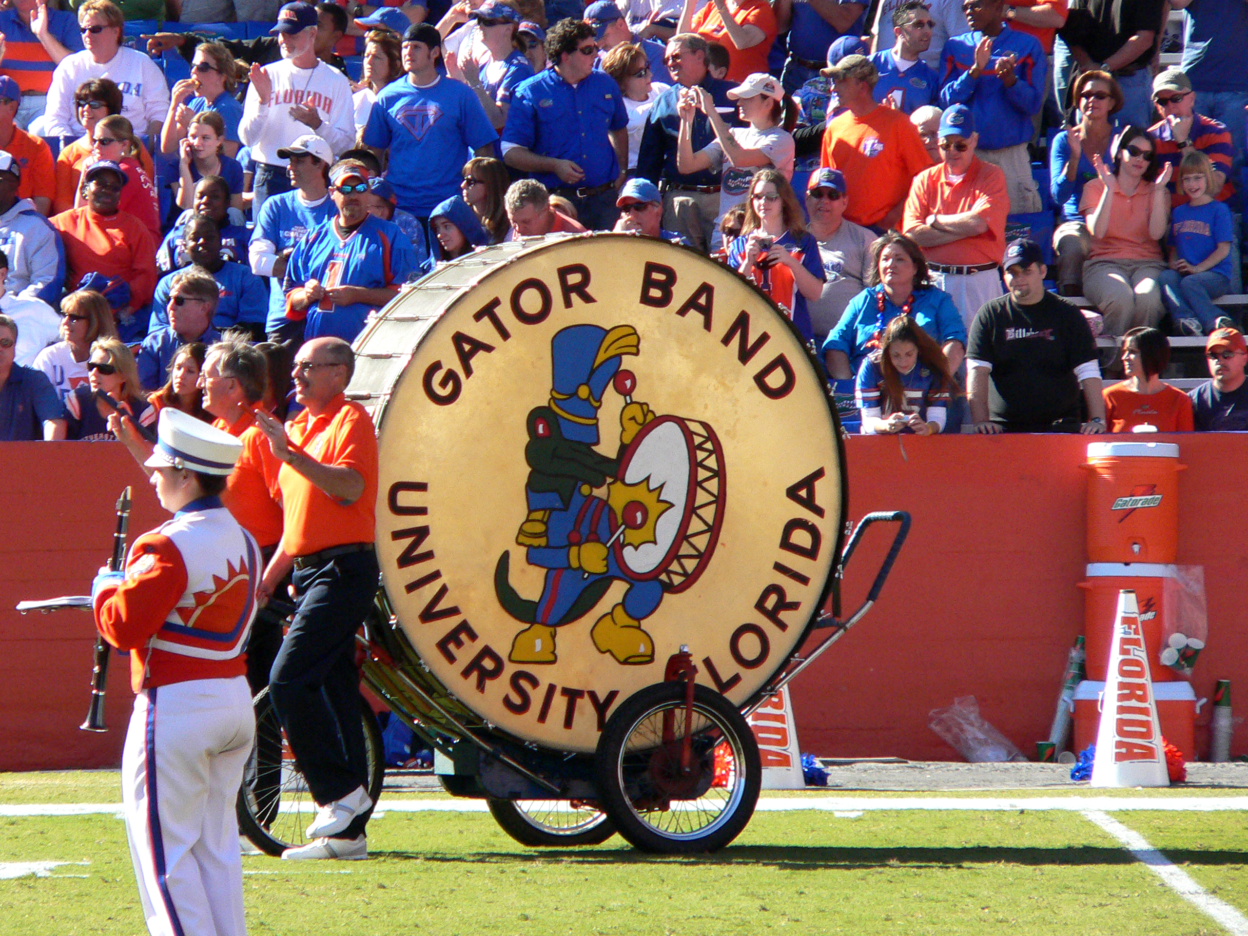 This is a picture of the "Pride of the Sunshine" Fightin' Gator Marching Band's alumni band.